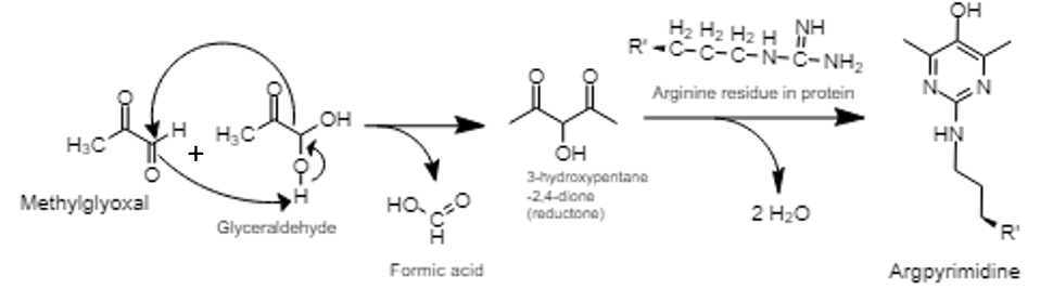 synthesis of argpyrimidine mechanism in vivo